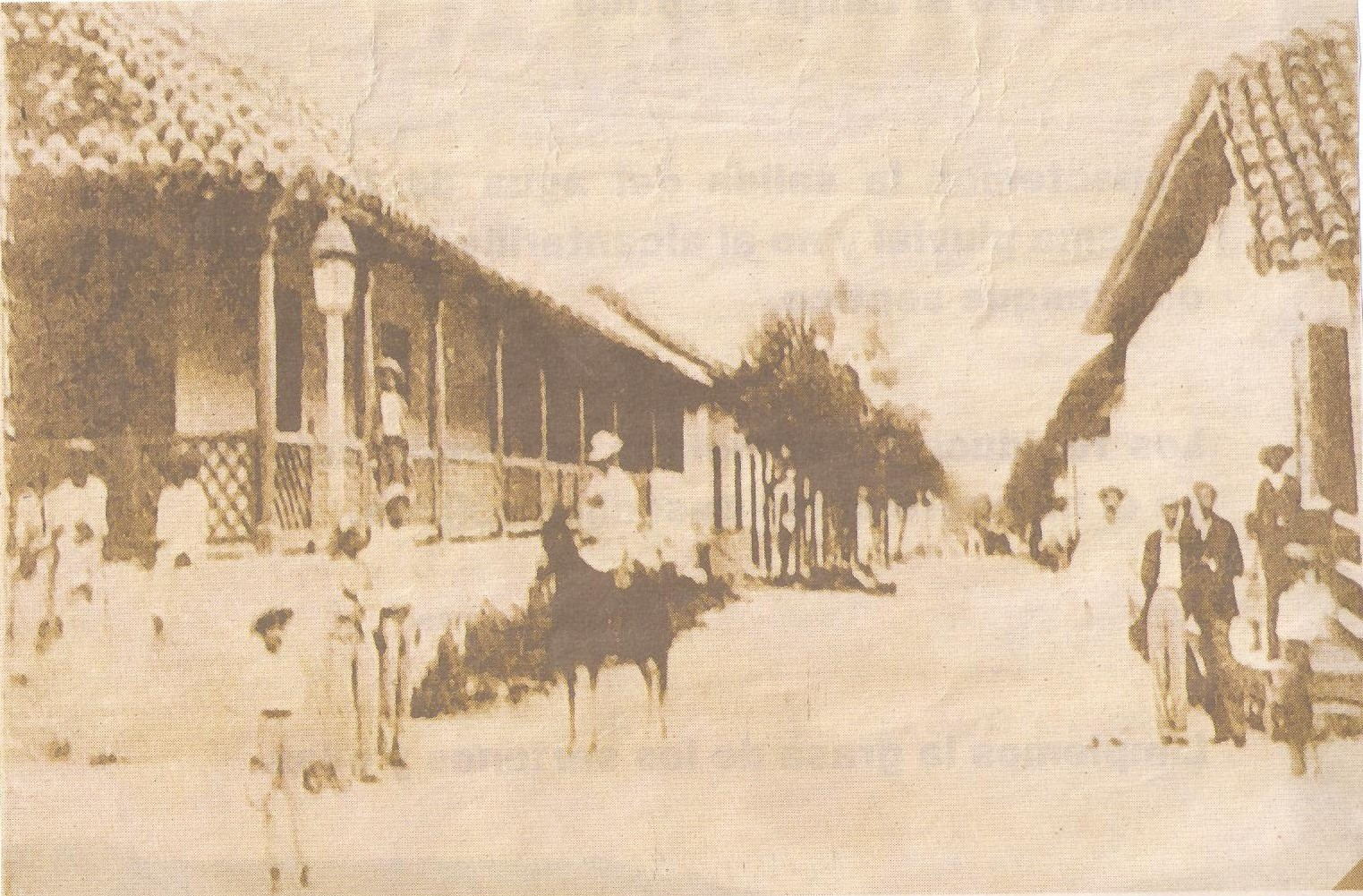 Calle Real in Liberia circa 1881